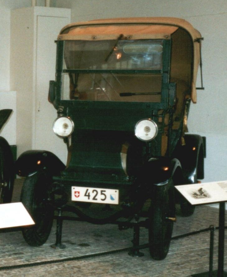 Tribelhorn 1912